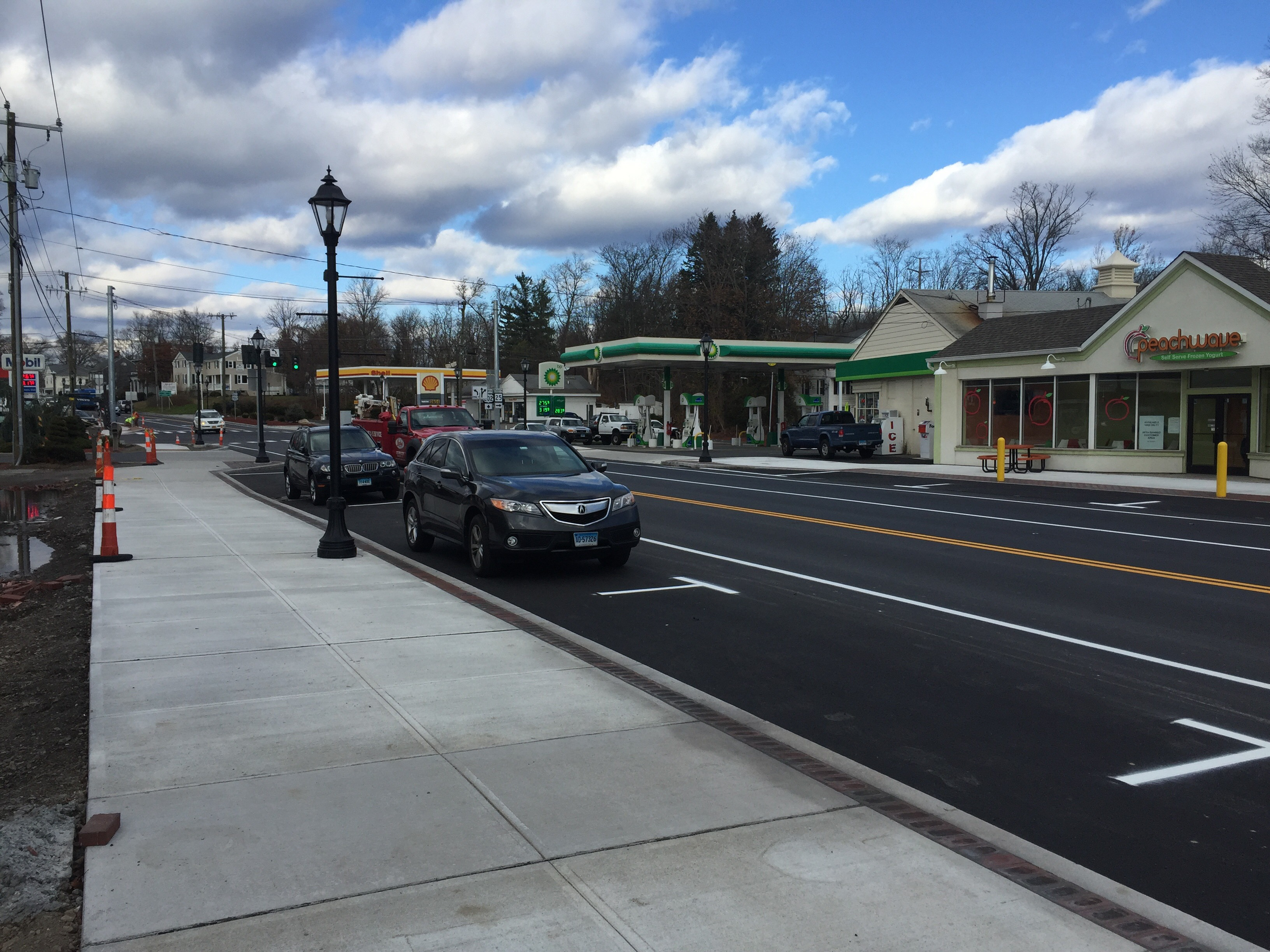 The newly completed streetscape of Brookfield, Connecticut's Downtown District